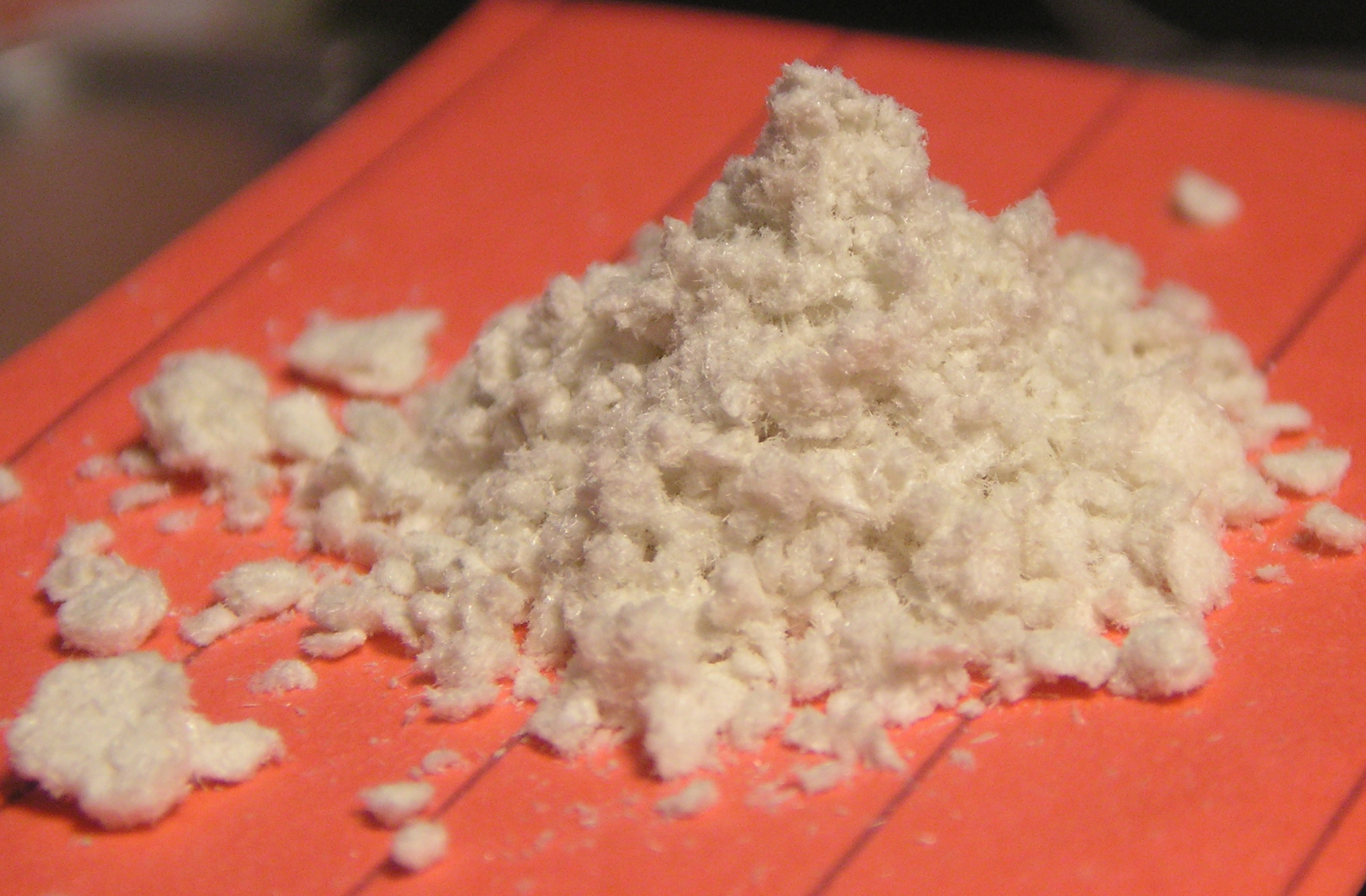 A mountain of 2CE weighing in at 200 milligrams.